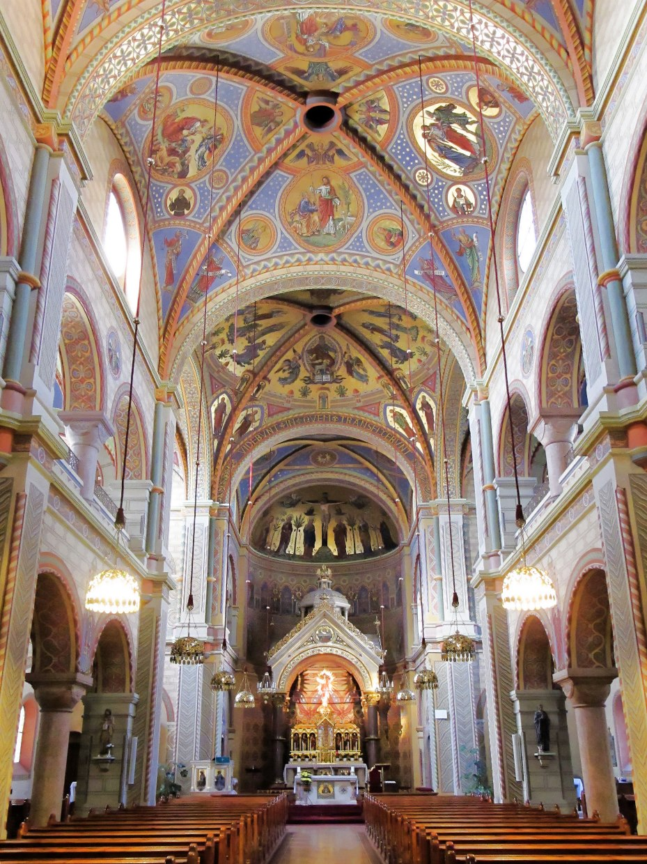 Innsbruck, Church "Herz-Jesu", inside